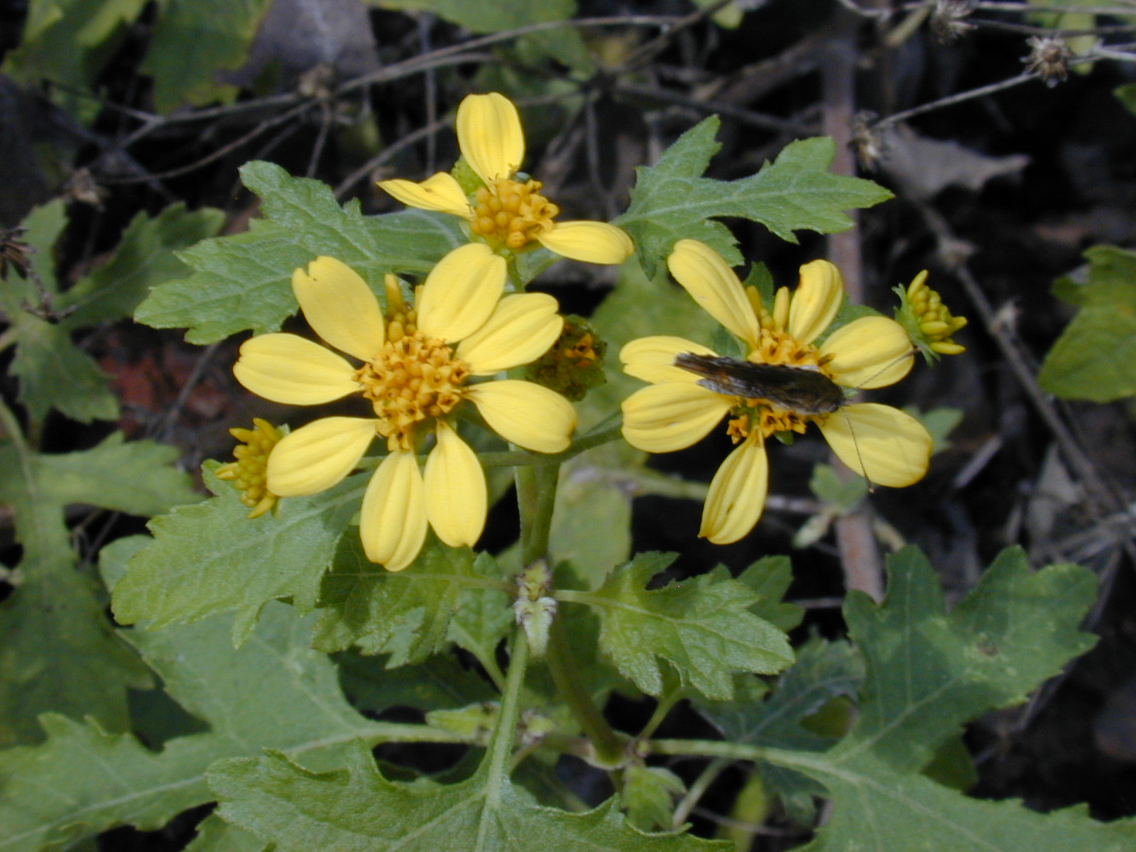 Lipochaeta rockii (flowers and leaves). Location: Maui, Wailea 670